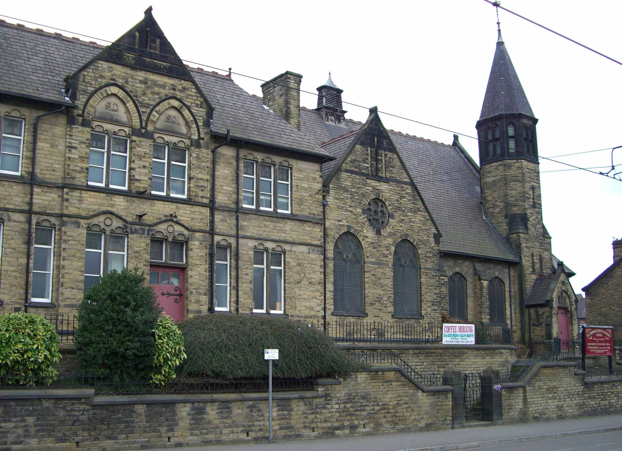 Hillsborough Trinity Methodist Church (right) and part of its Sunday School (left), Middlewood Road, Hillsborough, Sheffield, South Yorkshire, seen from the southeast